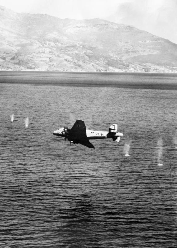 The German Junkers Ju 90/0007 (serial J4+JH) of Lufttransportstaffel 290 turns for the land as it comes under cannon attack from a Royal Air Force Martin Marauder piloted by Wing Commander W.S.G Maydwell, the Commanding Officer of No. 14 Squadron, off Bastia, Corsica on 22 July 1943. Maydwell and his crew, who had taken off from Protville, Tunisia, on a low-level reconnaissance sortie over the Tyrrhenian Sea, continued to attack the Ju 90 until they were shot at by the Corsican coastal defences and forced to break off. The Ju 90 crash-landed in Bastia and exploded shortly afterwards.